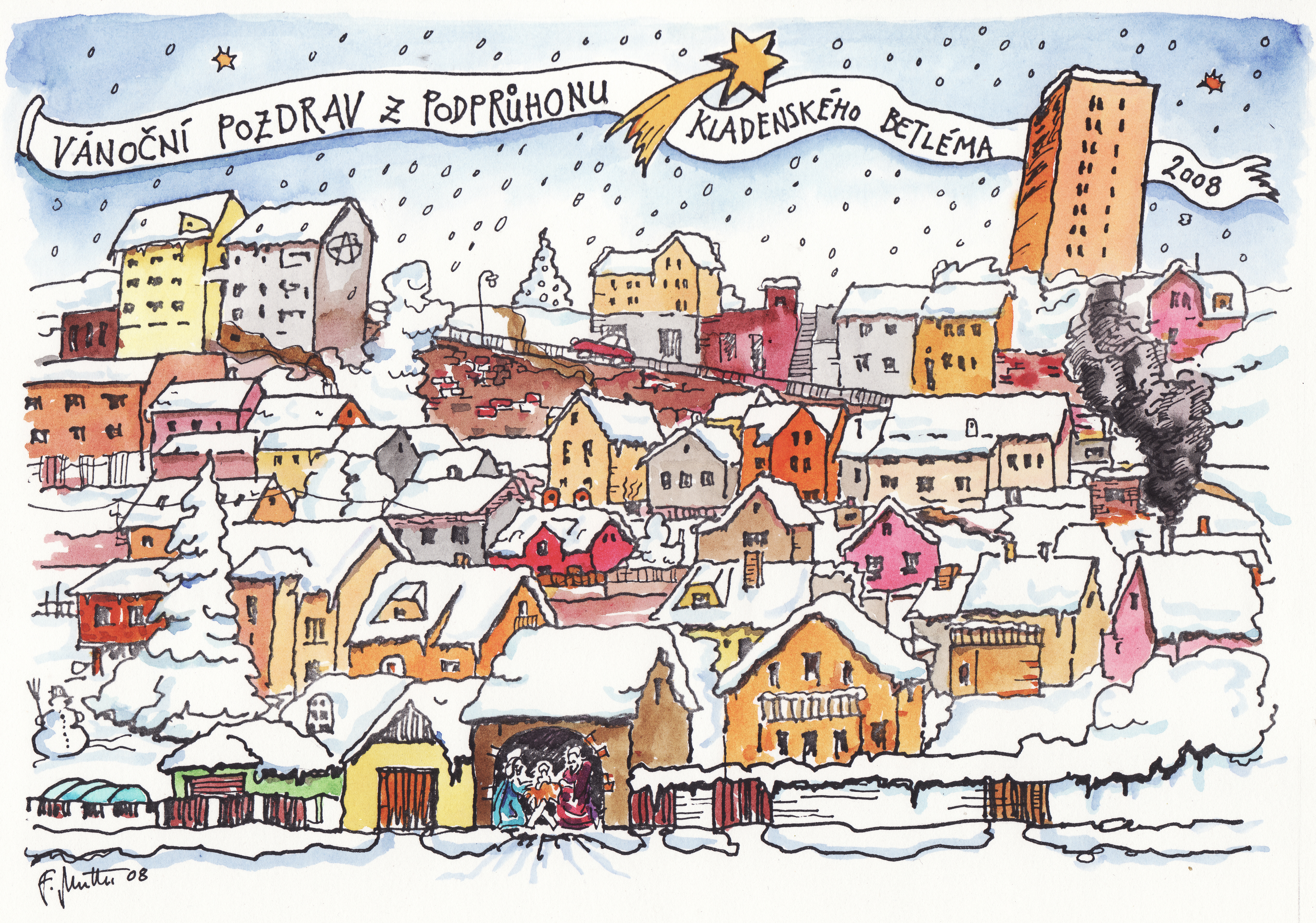 Christmas post card